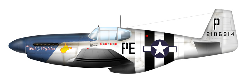 ©John "Wily" Mollison - P-51B flown by Lt. Roberty "Punchy" Powell